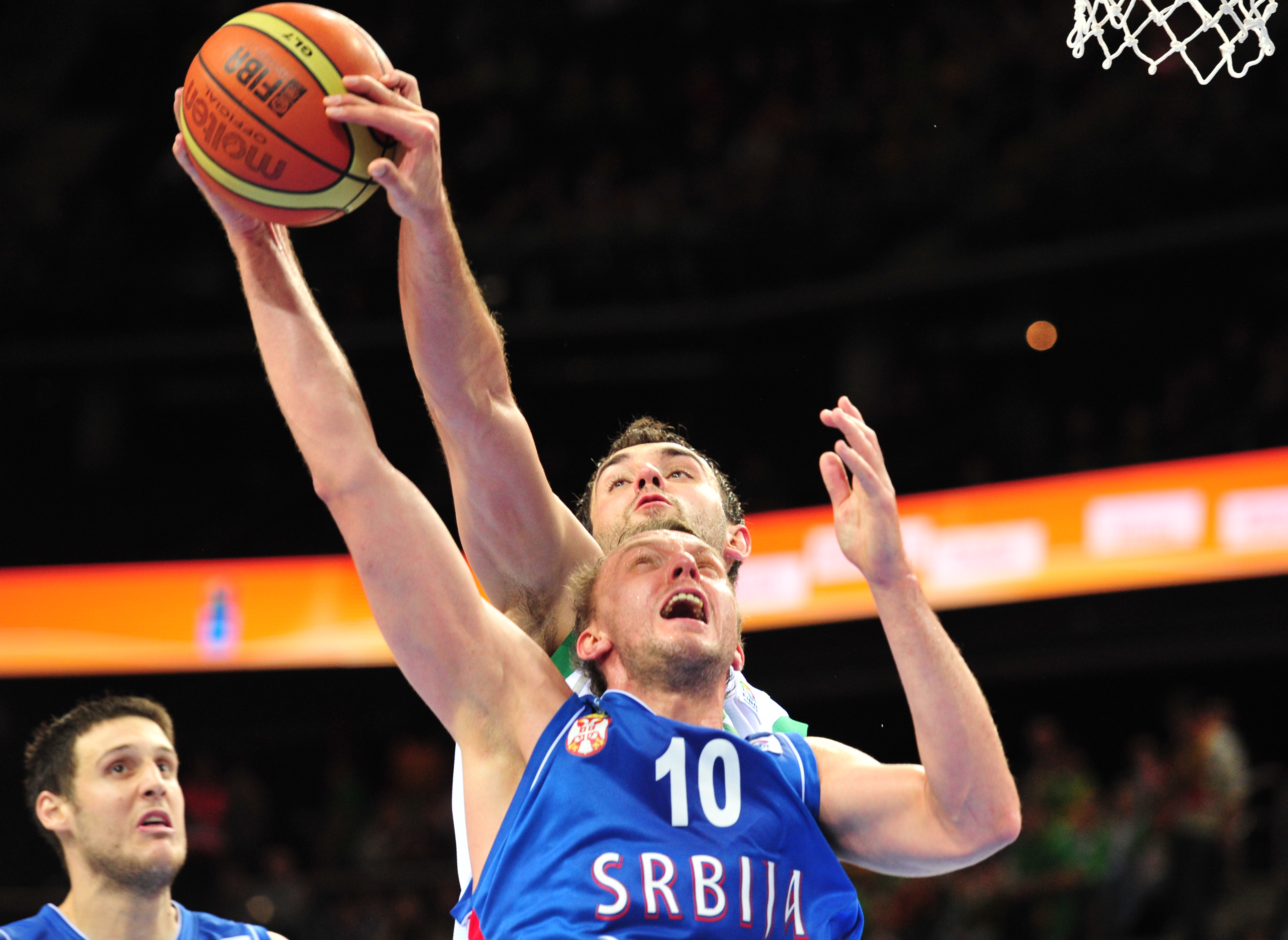 Serbia national team against Slovenia team.